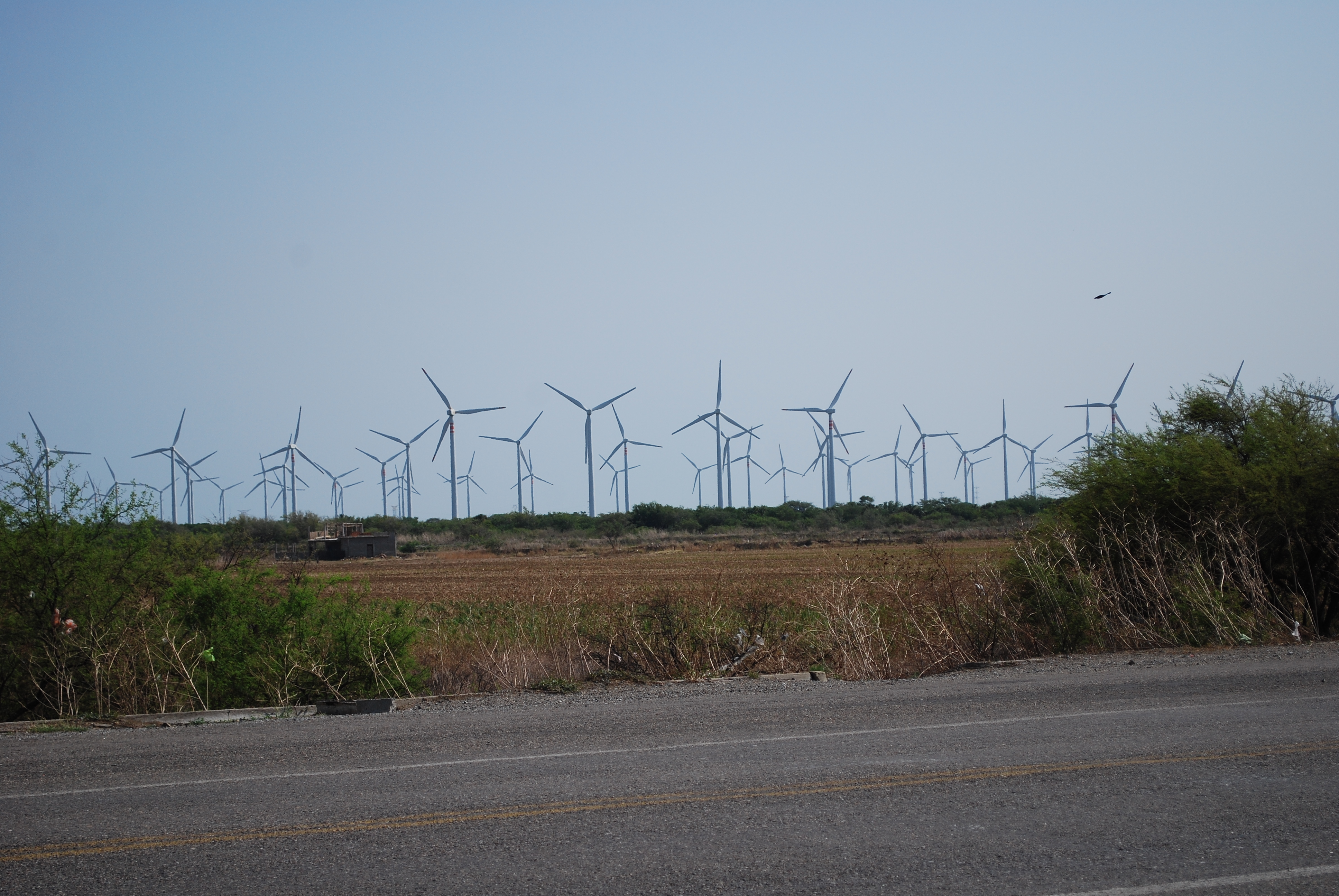 Windturbines near La Ventosa, Oaxaca, Mexico